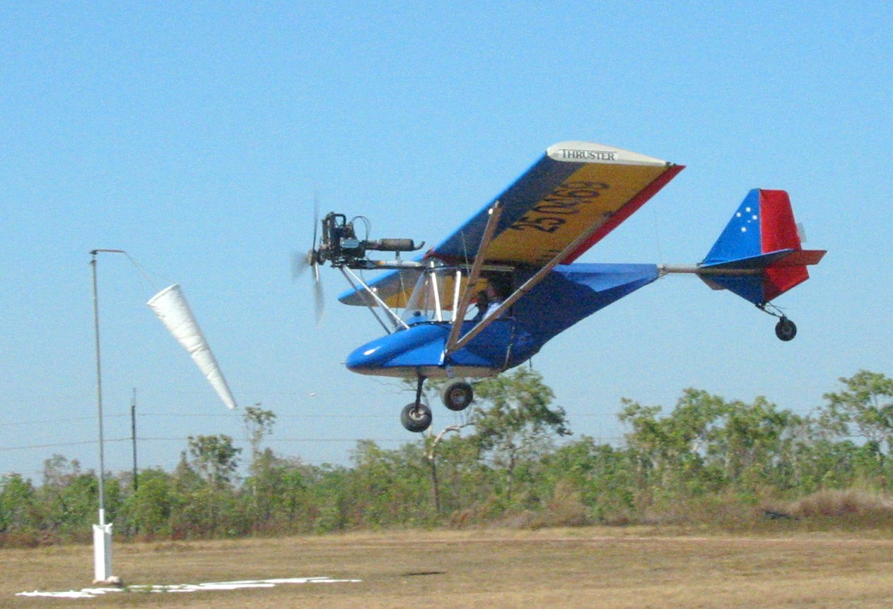 Konrad Drogemuller lands his Thruster on the day. Admission to the TEFC Open Day was by gold coin and thanks to the generosity of local Darwinites a good sum was collected for Camp Quality by day's end. The Top End Flying Club is based at MKT Airstrip off Jenkins Road at Noonamah. The majority of aircraft based at MKT are registered with Ra-Aus and flying training is available most days of the week. An open day is held every two or three years and is always well attended by the Darwin public.